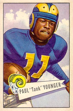 American football player Paul "Tank" Younger on a 1952 Bowman Large card.